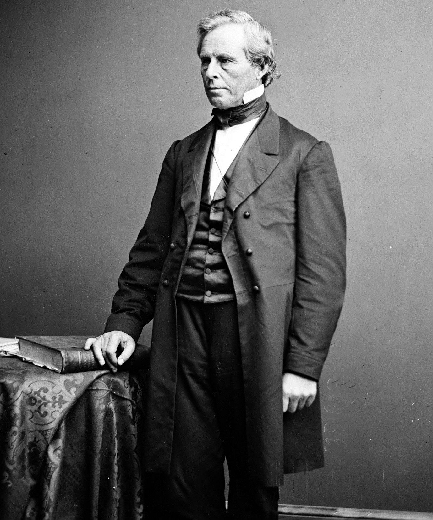 William G. Brown, Sr., US Representative from West Virginia